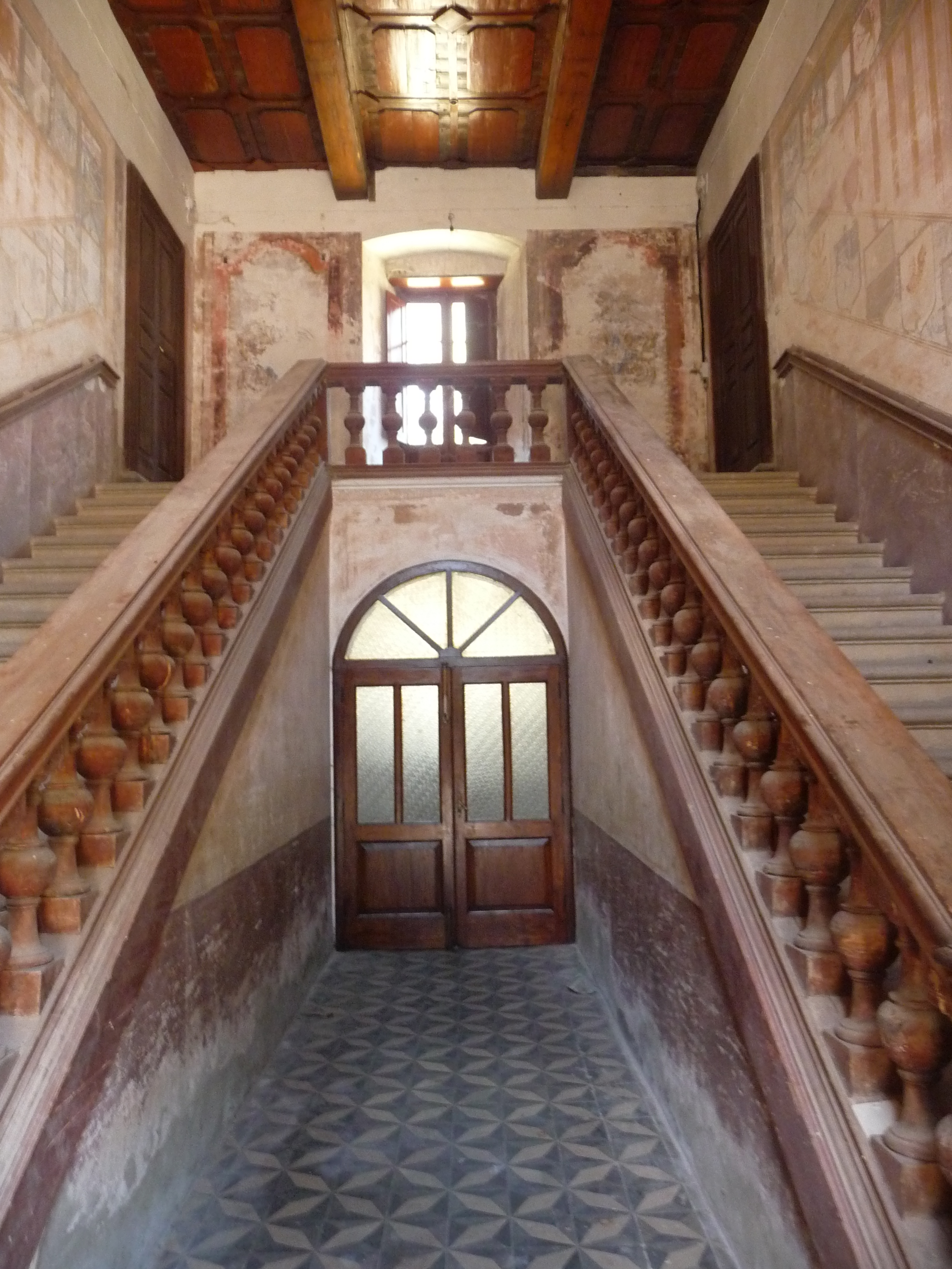 inner the Ferdinandea's Estate of Ferdinando II of Borbone